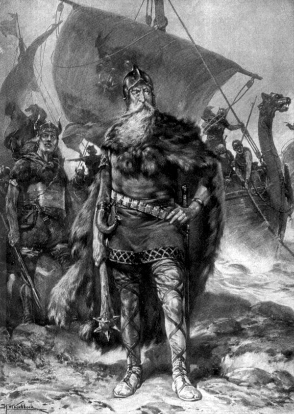 KING RORIK, son of Hother. Illustration to «TEUTONIC MYTH AND LEGEND». Hrōþirīk(i)az is a reconstructed Germanic name, the derived forms of which are used for a number of people in legend and history. It means "famous ruler", and appears in Old German as Hrodric, in Old English language as Hrēðrīc and Hroðricus, in Old East Norse as Rørik and Old West Norse as Hrœrekr. In the Primary chronicle, it appears as